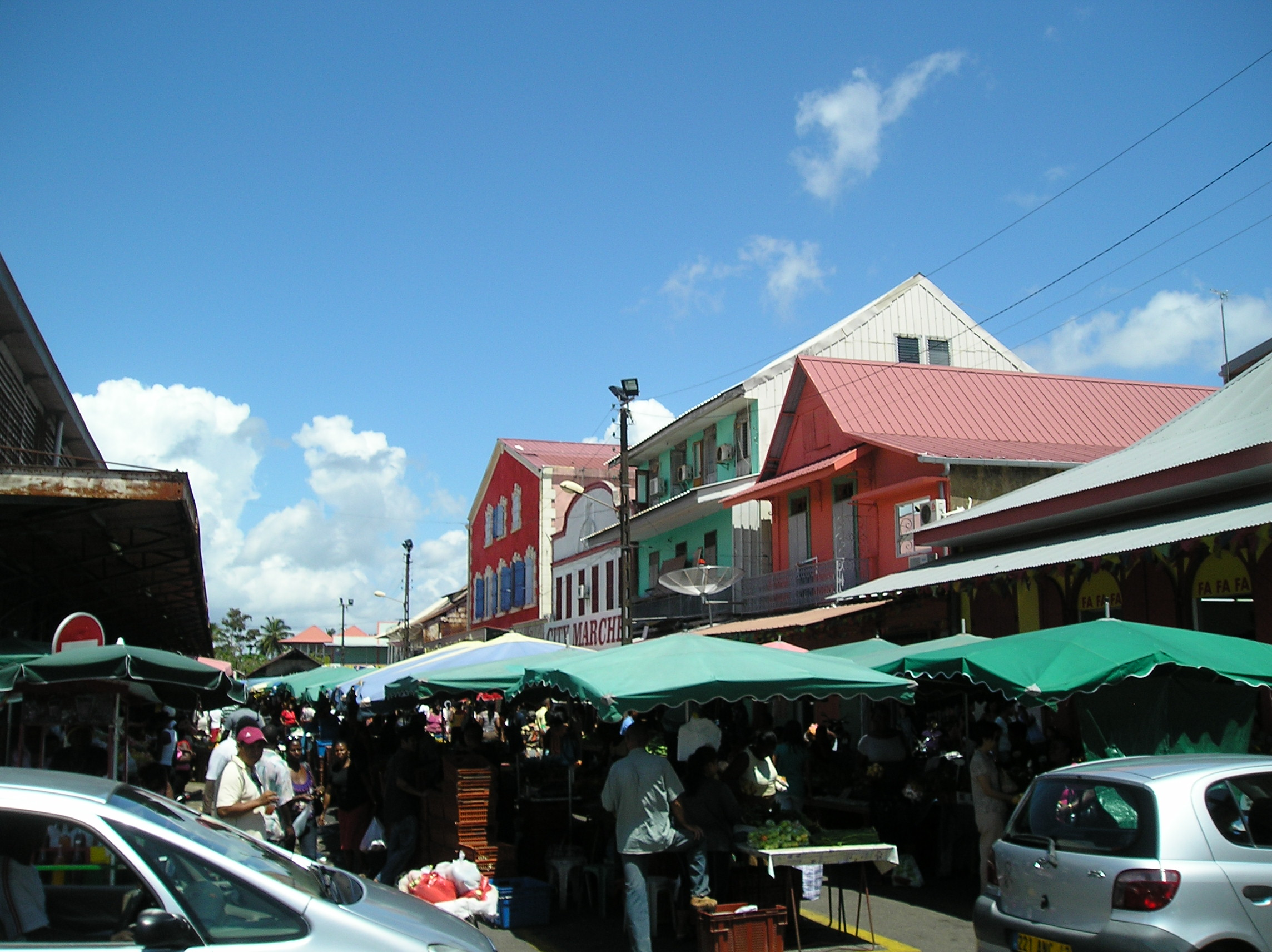 cayenne Market, right side